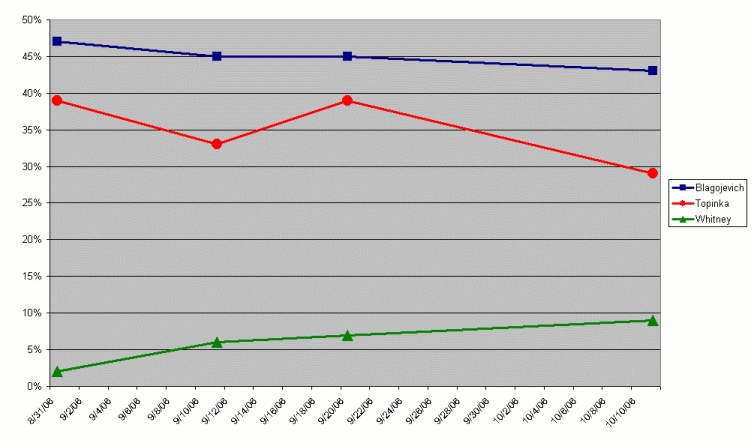 Author: Squideshi Source: Made Myself Contents 1 Summary 2 Captioned As 3 Licensing 4 Original upload log Summary Author: Squideshi Source: Made Myself Captioned As { }